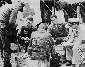 Medical Service officers conferring near Santo Domingo in early May 1965. Facing the camera are LTC William L. Richardson, MC, Commanding Officer, 15th Field Hospital, and MAJ Quitman W. Jones, MC, Surgeon, 82d Airborne Division.